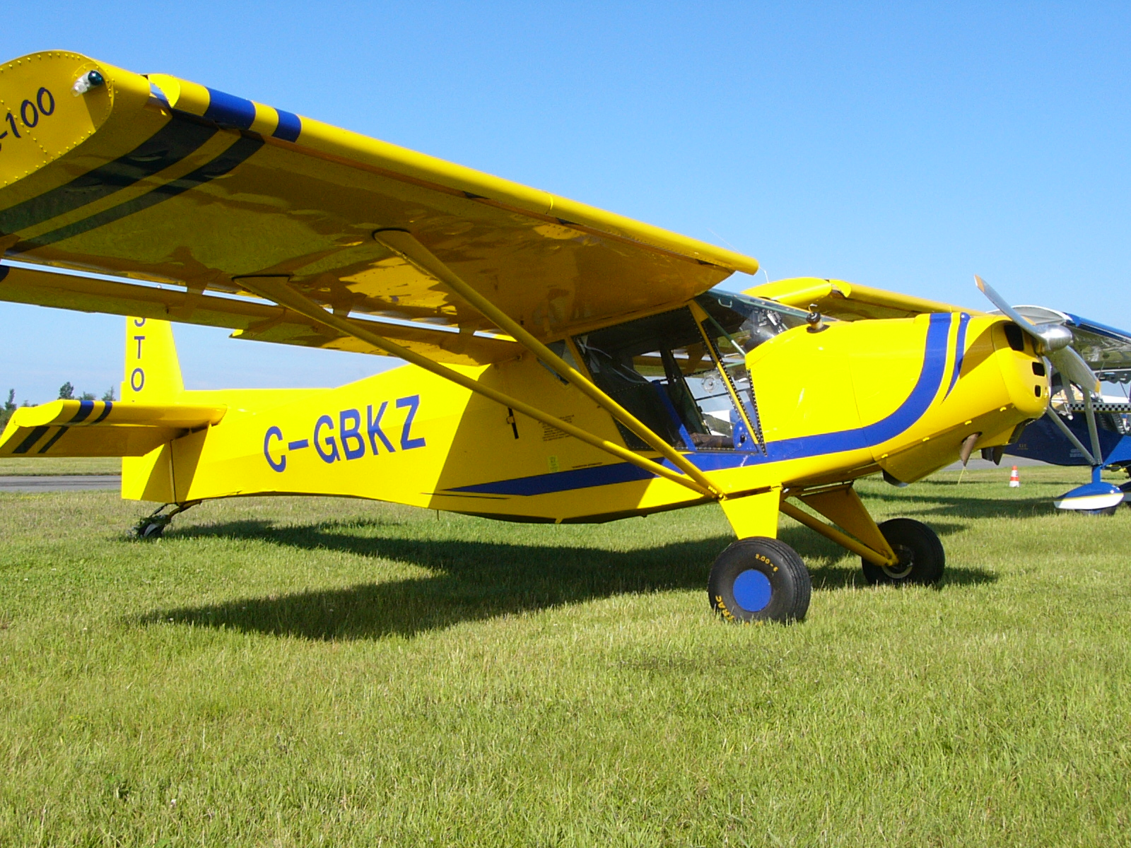 A Tapanee Pegazair-100 at Les Faucheurs de Marguerites Sherbrooke, Quebec, Canada